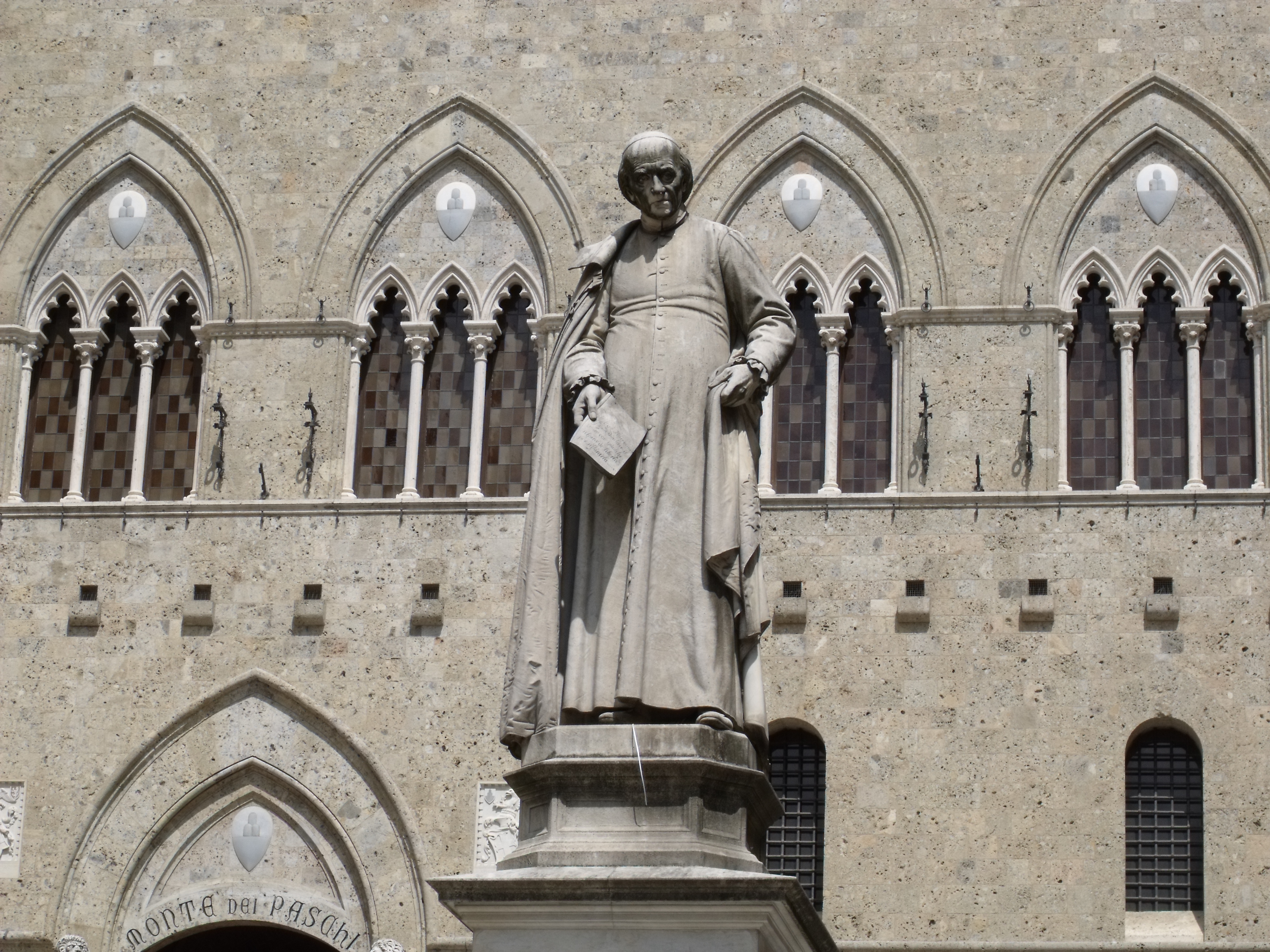 Monument of Sallustio Bandini on Piazza Salimbeni in Siena